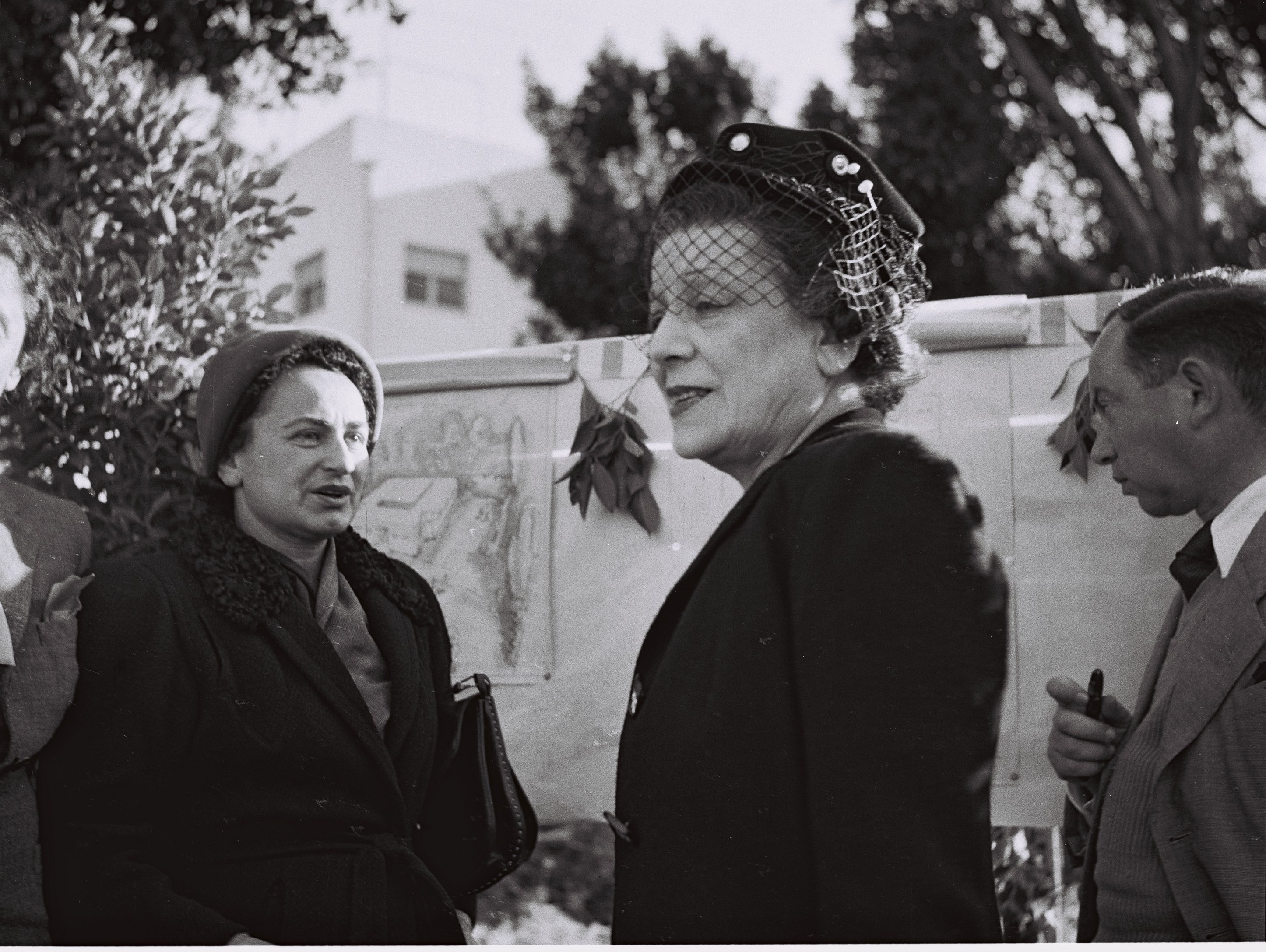 original description:MRS. VERA WEIZMANN (CENTRE) VISITING THE SITE OF A NEW WIZO NURSERY TO BE OPENED IN REHOVOT.